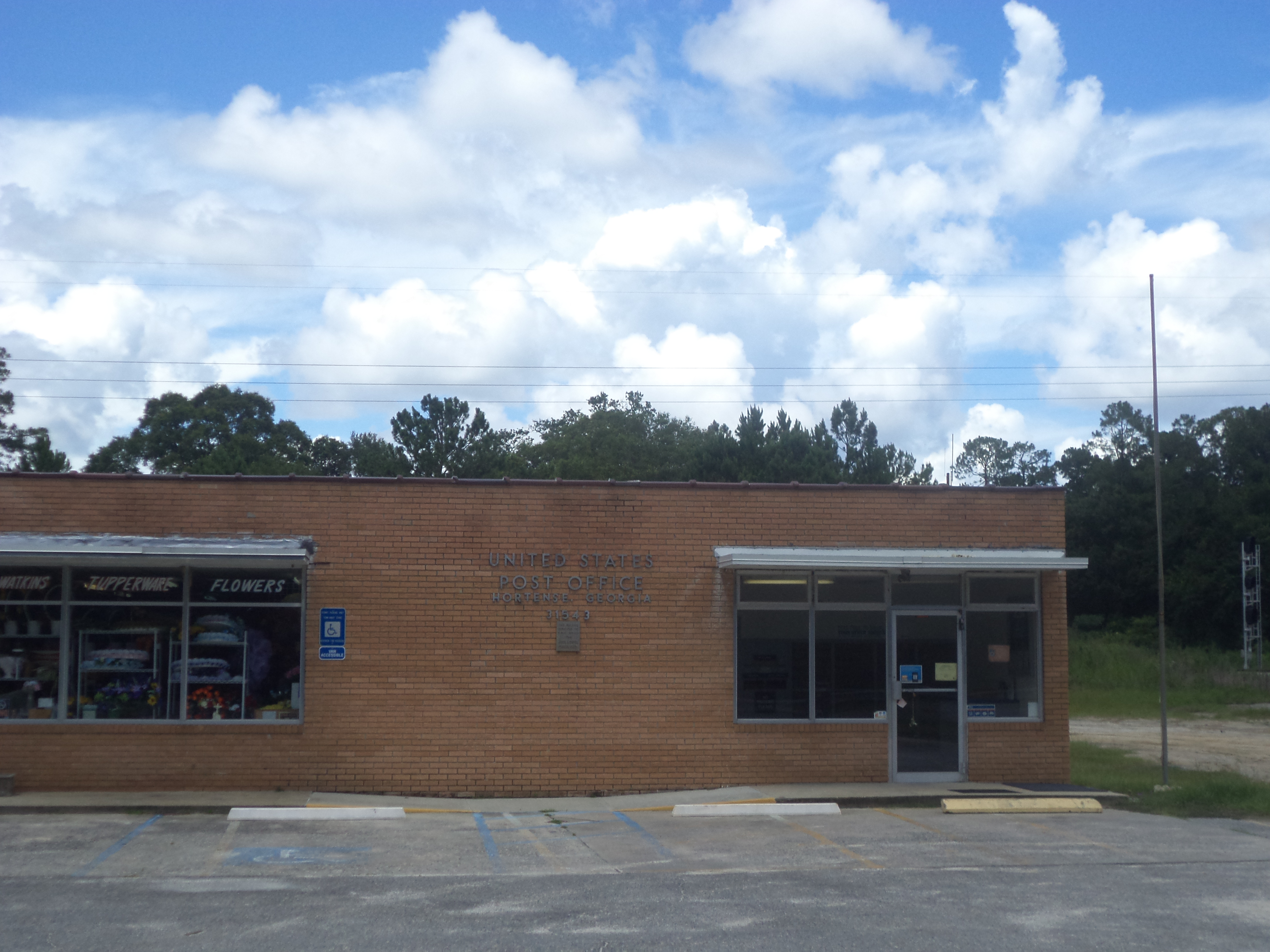 Hortense Post Office 4779 Highway 32 W, Hortense, Brantley County, Georgia